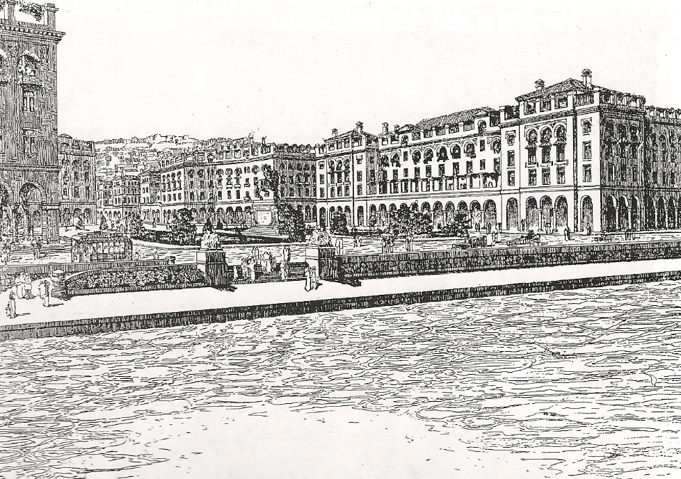 Ernest Hebrard's plans for Alexander the Great Square (now Aristotelous Square) in Thessaloniki, Greece, in 1918.